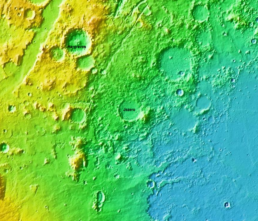 Jezero Crater - cropped from MOLA Topographic Map of Syrtis Major Quadrangle (MC-13) on the planet Mars. NOTE: Converted the original PDF file to a PNG File (via GIMP v2.8.4 program) - and uploaded to Wikimedia Commons.